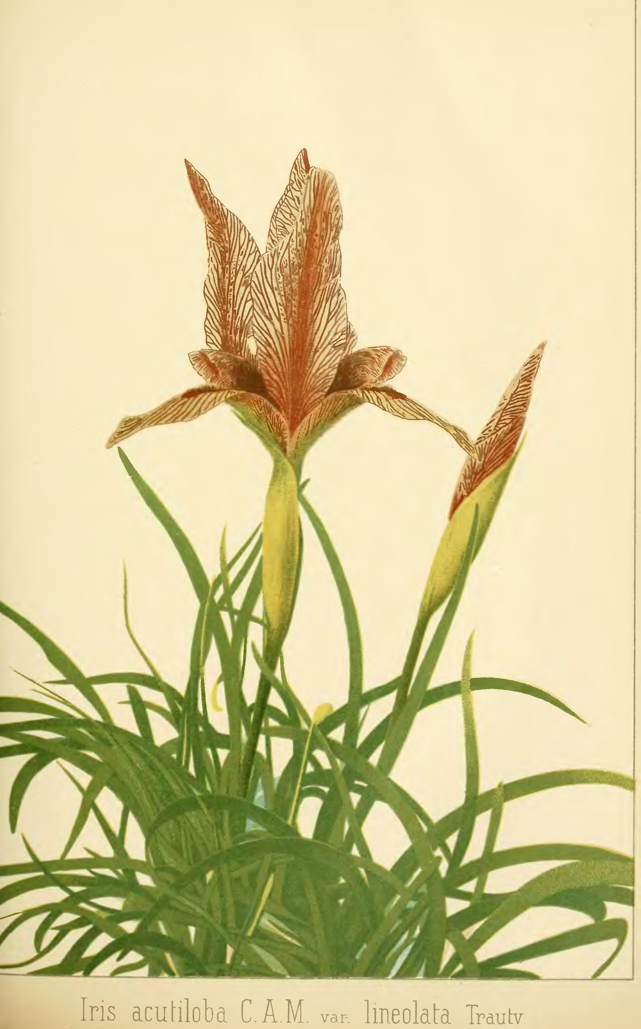 Iris acutiloba C.A.Mey. var. lineolata Trautv.